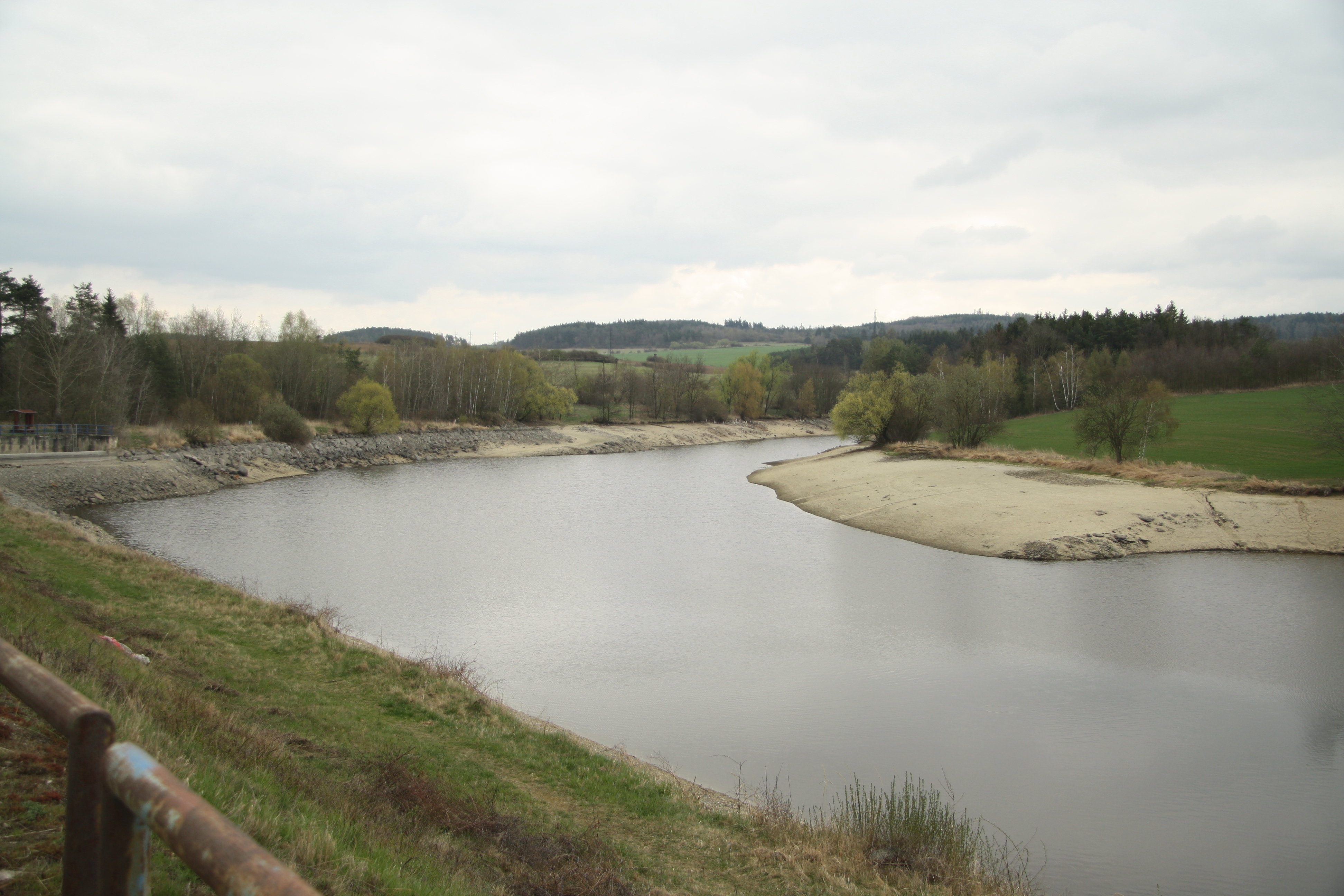 South part of water reservoir Kožichovice - Markovka, Třebíč District.